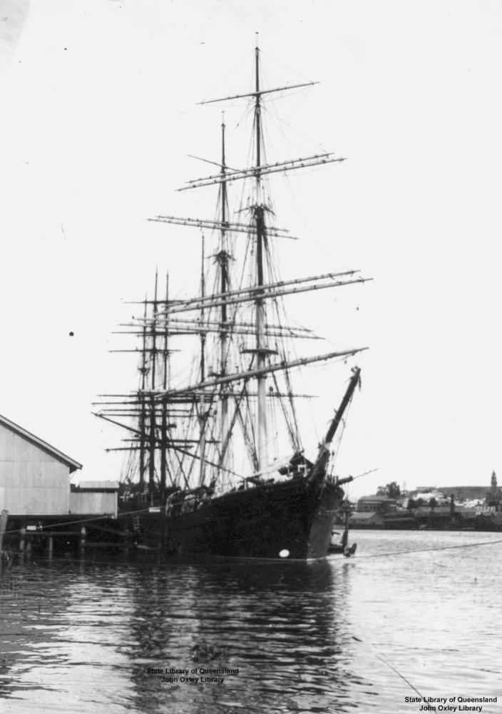 Cimba (ship). The 'Cimba' at Brown's Short Street Wharf, Brisbane River, around 1900.